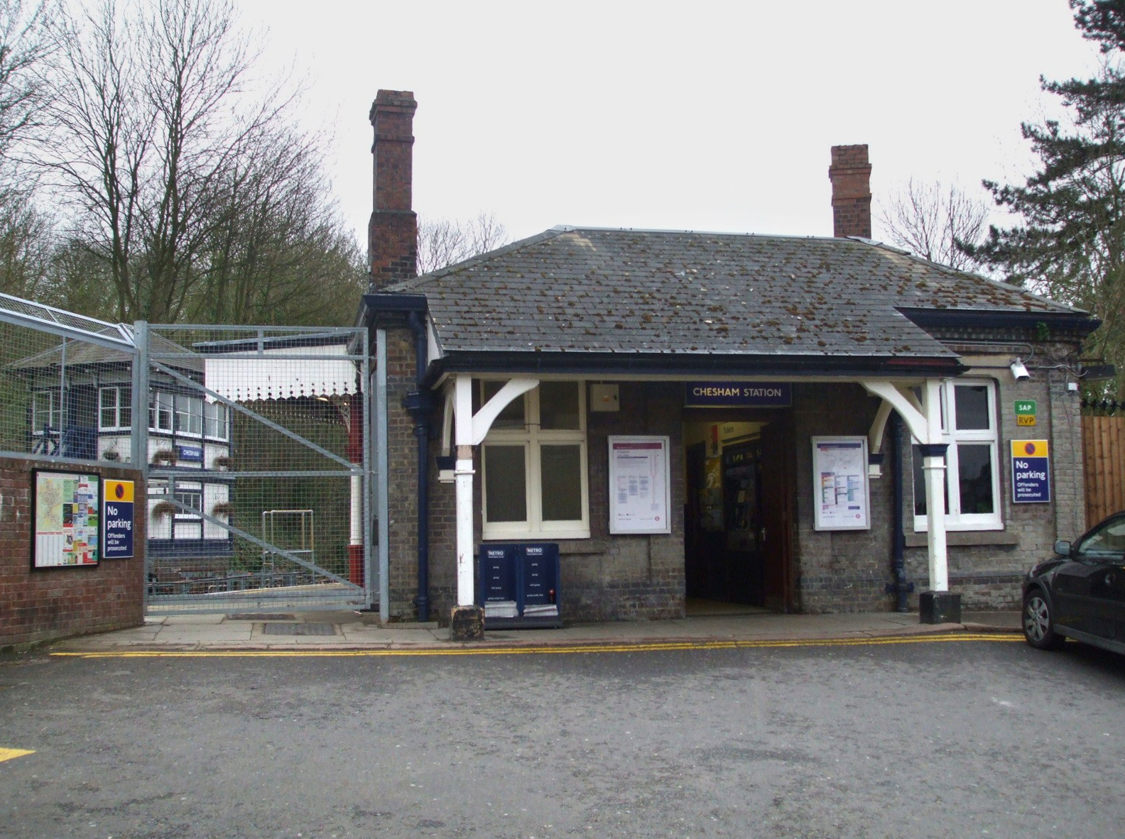 Chesham tube station building